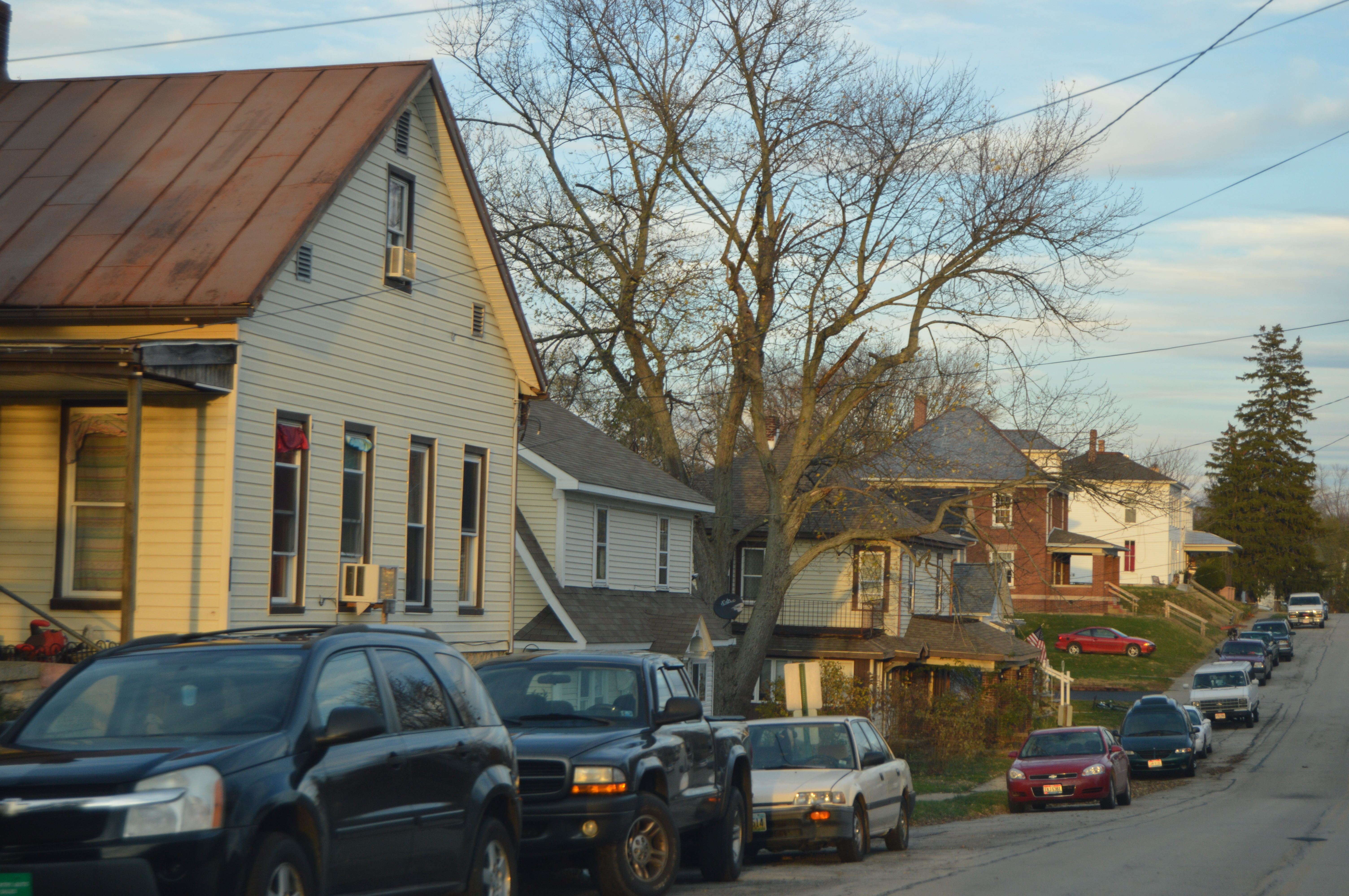 Houses on the northern side of Main Street east of the Clay Street intersection in Gettysburg, Ohio, United States.